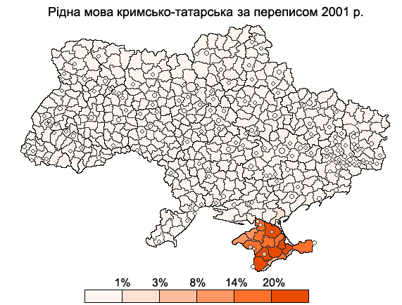 Crimean-tatar as native language, 2001 ukrainian census